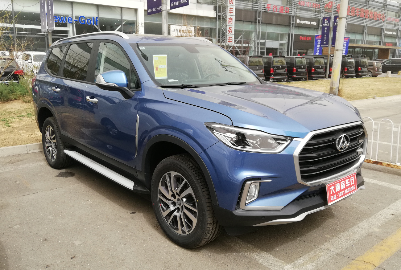 Maxus D90 photographed in Beijing, China.